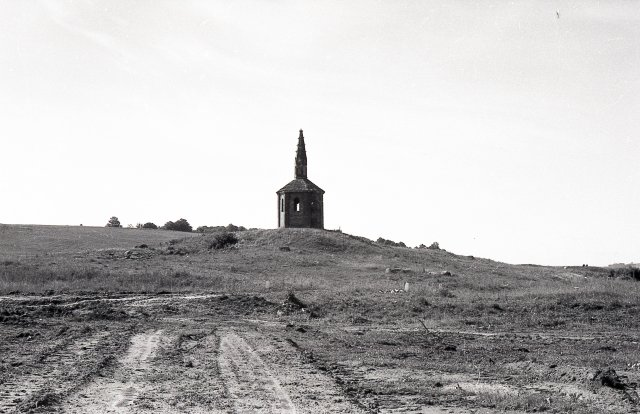 Žvainiai, Kretinga district, LithuaniaLietuvių: Gaidžio kalnas, Žvainių k., Kretingos rajonas, Lietuva